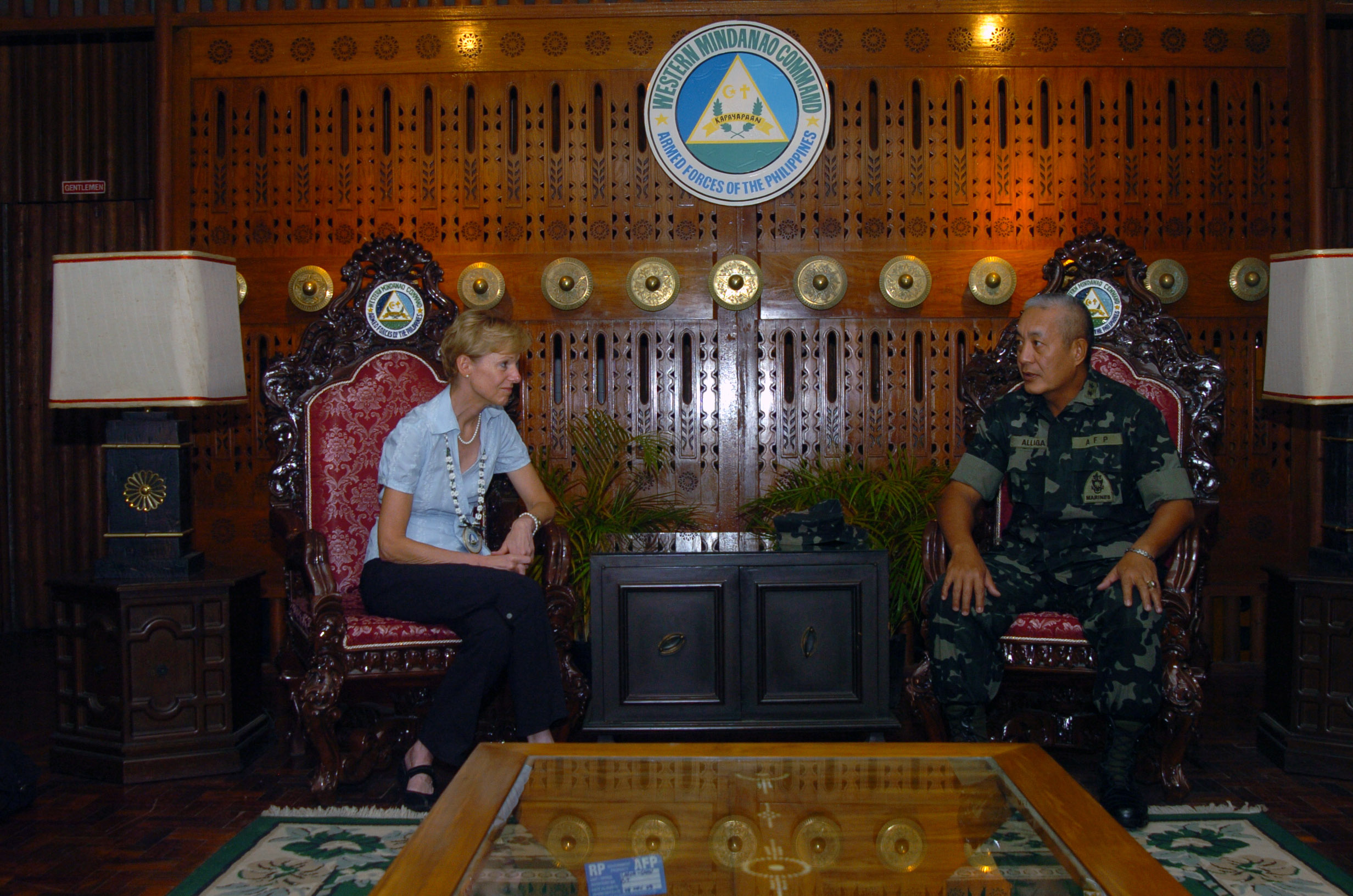 ZAMBOANGA CITY, Philippines (Nov. 22, 2007) U.S. Ambassador for the Republic of the Philippines, Kristie A. Kenney, meets with Western Mindanao Command Chief Major General Nelson Allaga at Camp Navarro. Kenney is traveling around the southern Philippine island of Mindanao to meet with soldiers operating in the Joint Operational Area (JOA) in support of the Joint Special Operations Task Force Philippines (JSOTF-P) over the Thanksgiving holiday. U.S. Navy photo by Mass Communication Specialist 2nd class Shawn Gentile (Released)